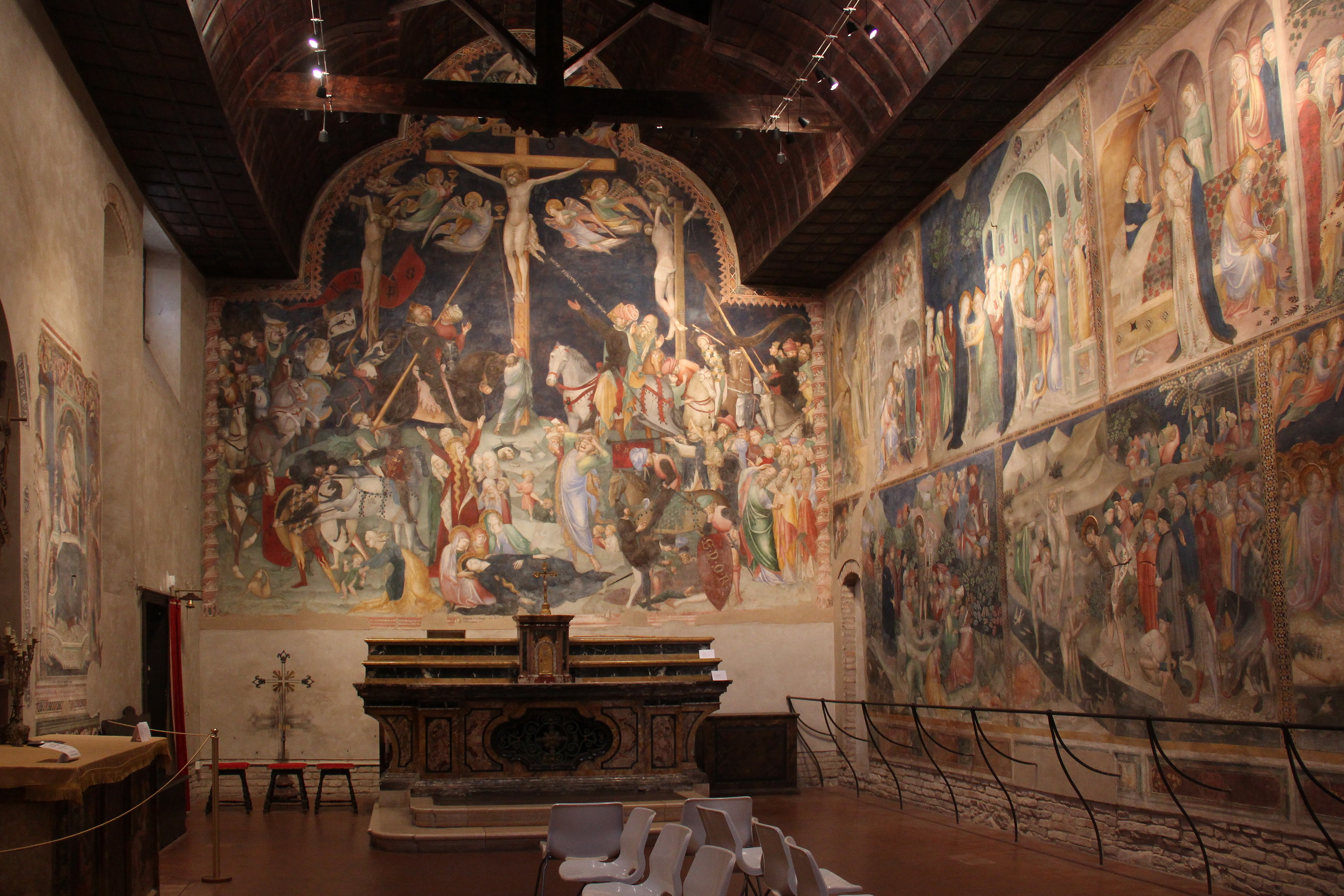 San Giovanni Battista - Interior Oratorio di San Giovanni Battista, Urbino Native nameOratorio di San Giovanni Battista, UrbinoLocationUrbino, Marche, ItalyCoordinates43° 43′ 32″ N, 12° 38′ 04″ E Authority control : Q3884672